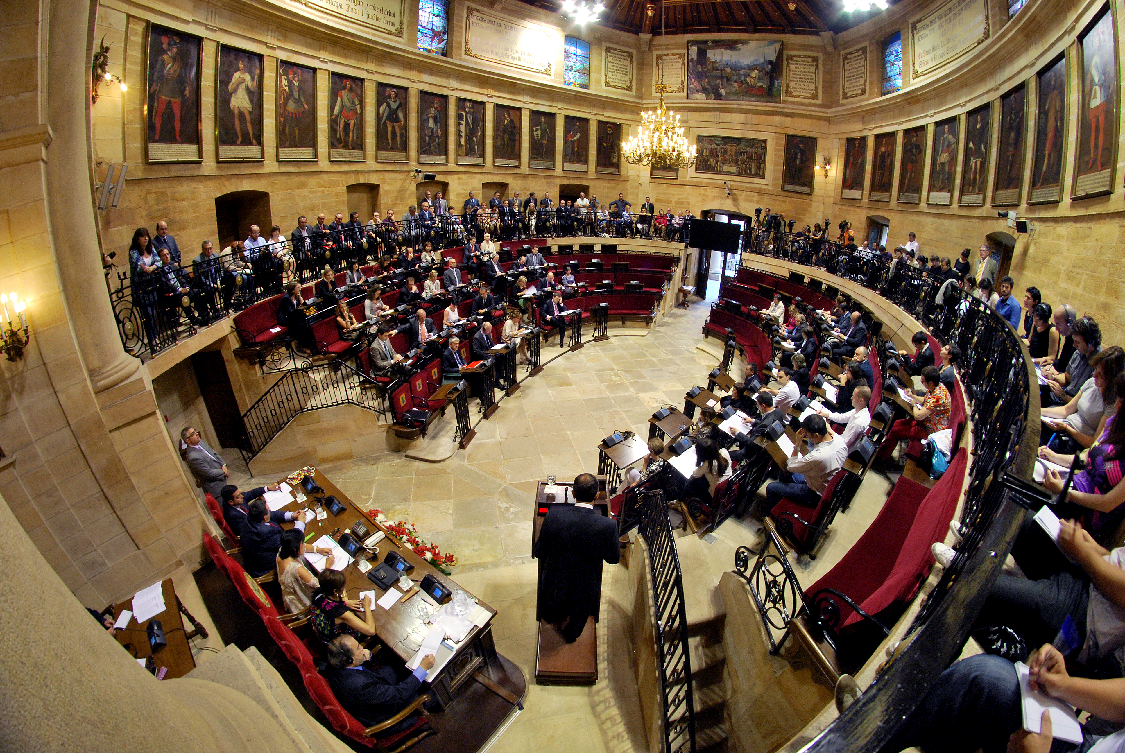 Assembly House in Gernika during opening act after 2011 elections